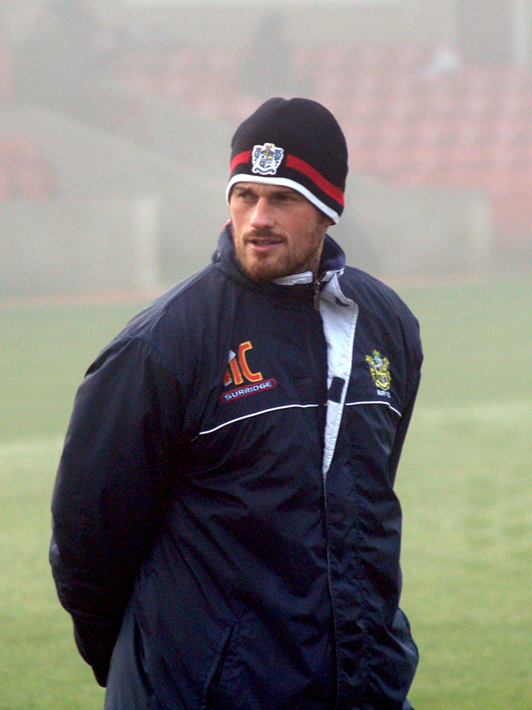 1Bury FC goalkeeping coach Neil Cutler at the Fraser Eagle Stadium, home of Accrington Stanley FC prior to the Accrington Stanley vs. Bury game. Saturday 29th November 2008